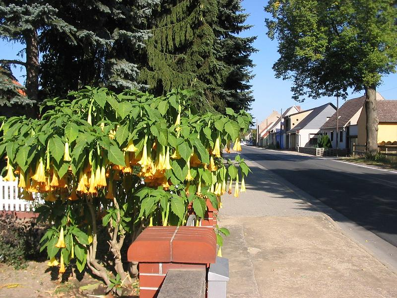 Dorfstraße (german for villagestreet ) in Gömnigk. The village Gömnigk is a part of the town Brück in the district Potsdam Mittelmark, state Brandenburg, Germany, at the border to the natural preserve Naturpark Hoher Fläming.